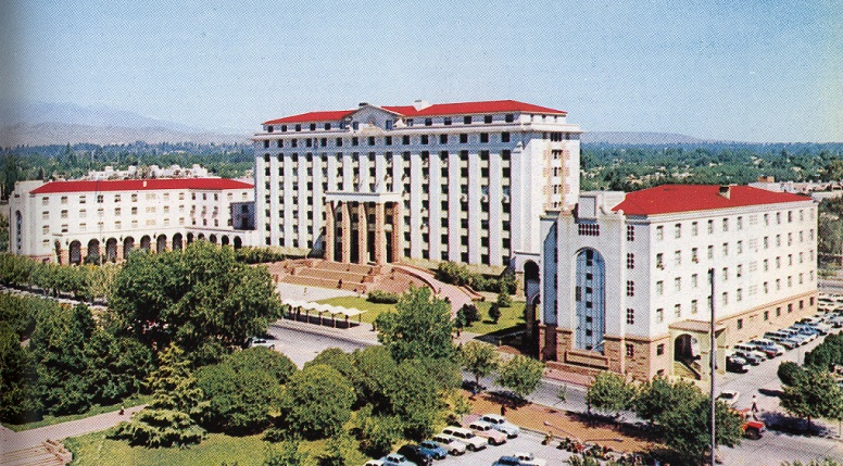 Provincial Executive Office Building, Mendoza, Argentina.